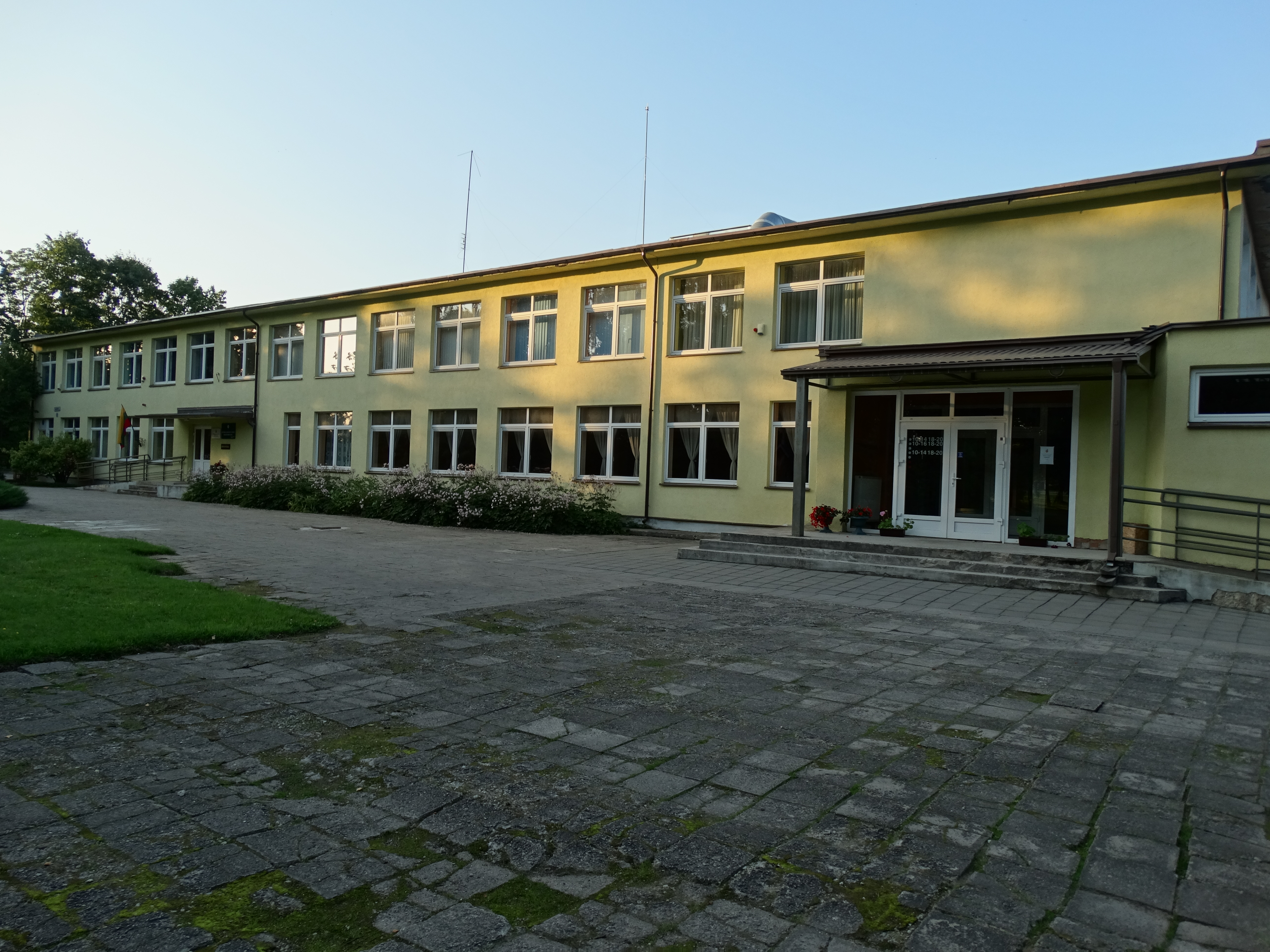 Eldership, Skaistgirys, Joniškis district, Lithuania